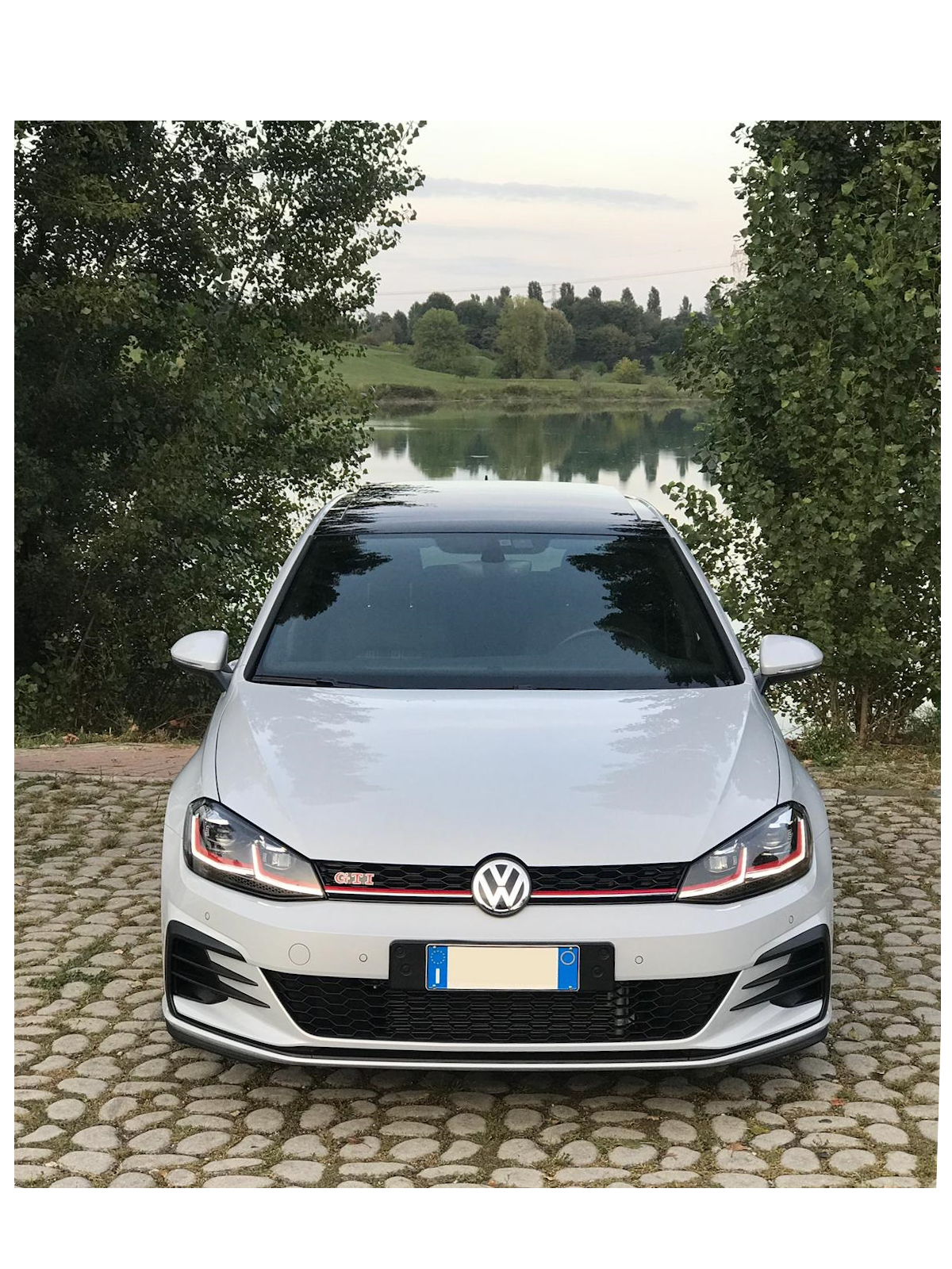 VW Golf GTI 7.5 Performance (Restyling/Facelift) White Silver color